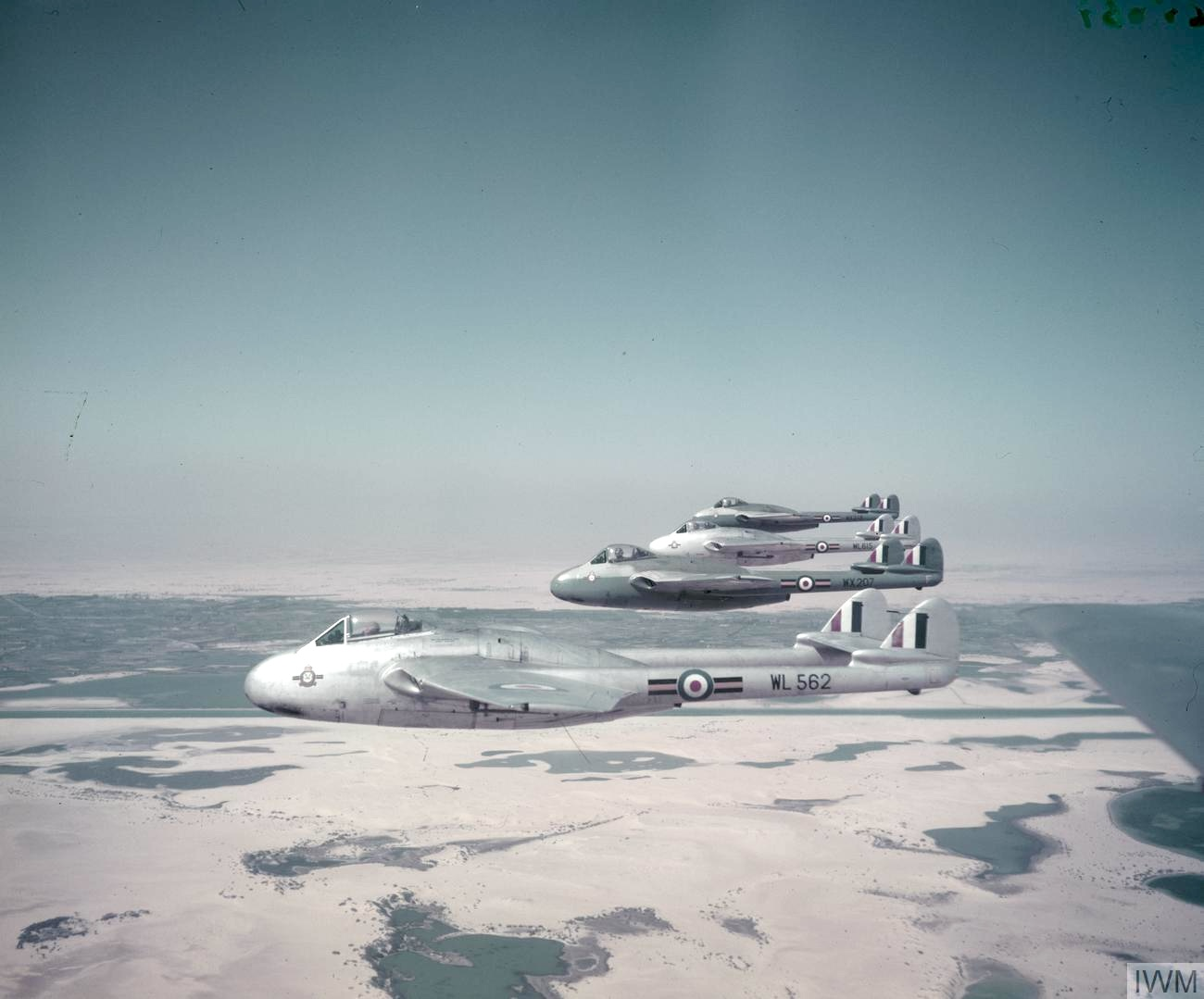 Four Royal Air Force De Havilland Vampire FB.9s in line abreast formation (WL582, WX207, WL615, WX218) over Egyptian desert. These aircraft were from No 213 Squadron based at RAF Deversoir, in the Suez Canal Zone, Egypt. 213 Squadron was part of the Canal Zone Fighter Defence Force.